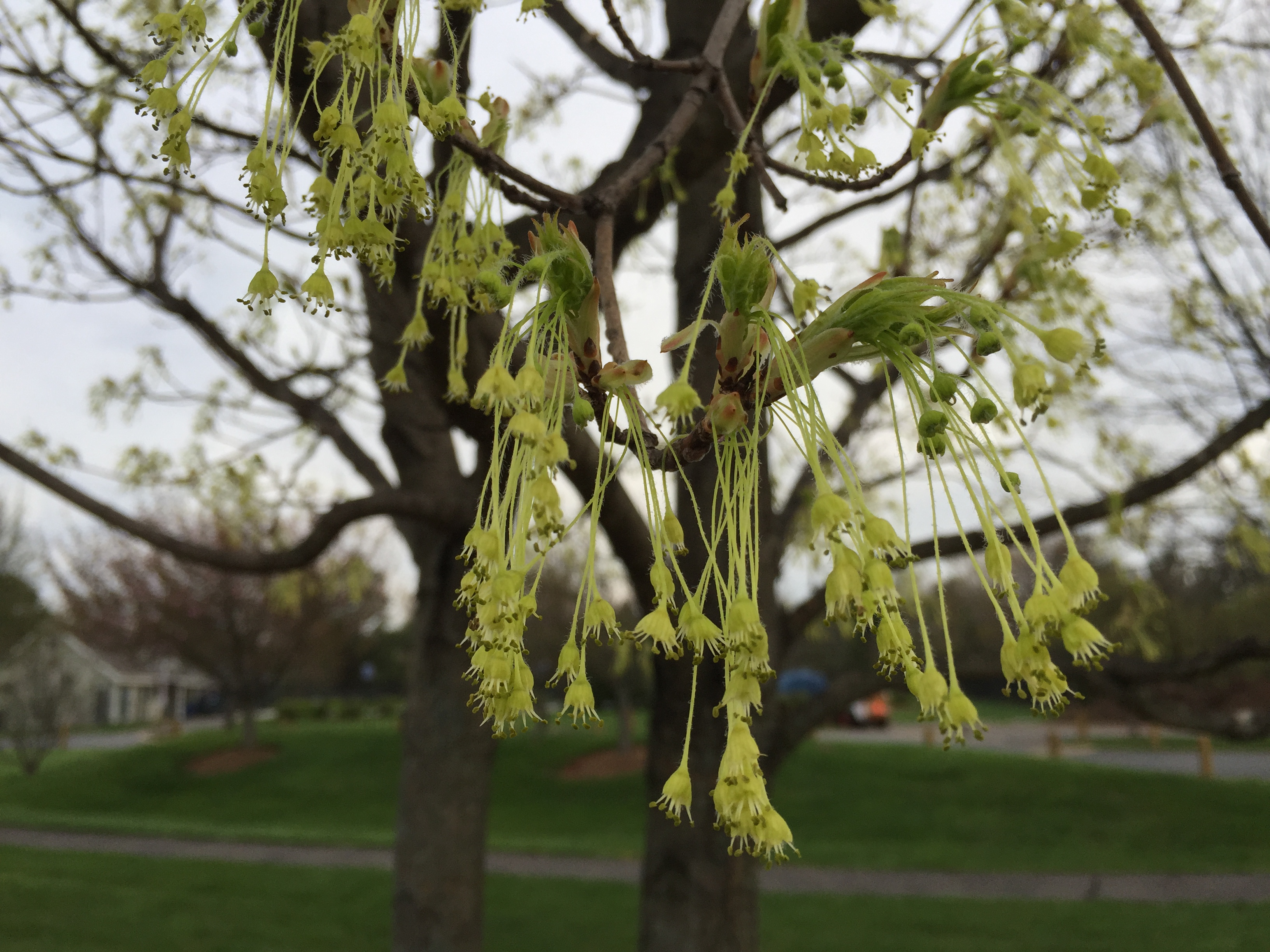 Sugar Maple flowers along Franklin Farm Road near Tranquility Lane in the Franklin Farm section of Oak Hill, Fairfax County, Virginia